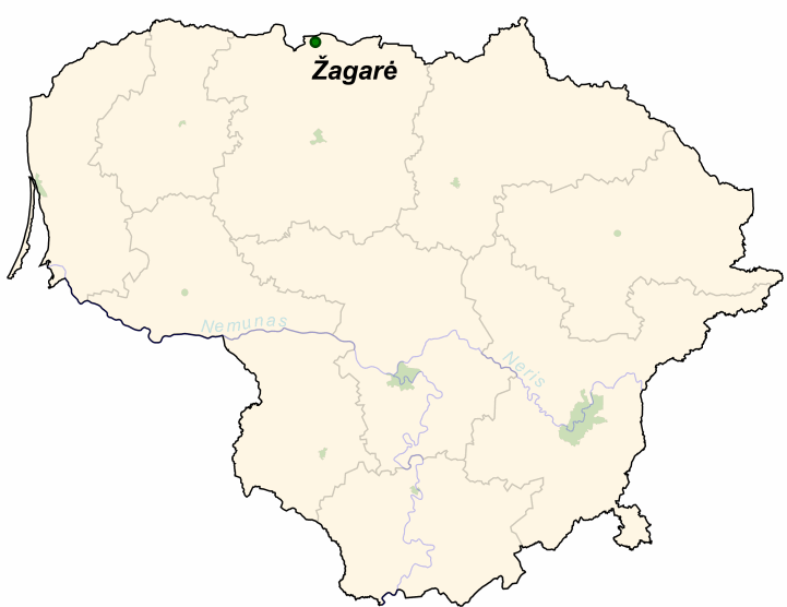 Žagarė on the map of Lithuania